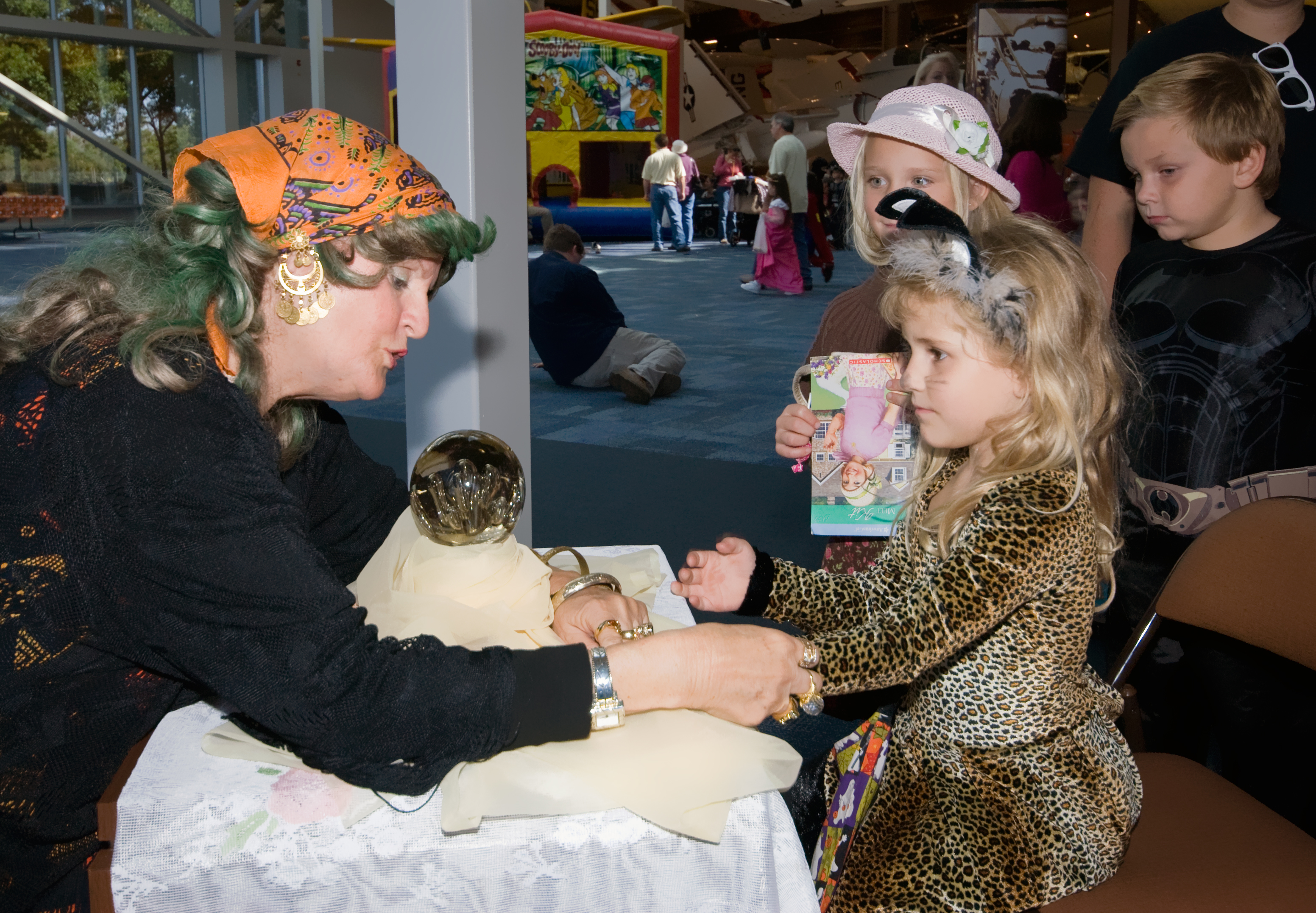 Halloween party palm reading at National Museum of Naval Aviation, Pensacola, Florida.